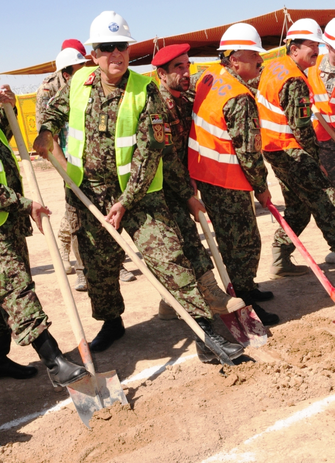 Afghan National Army Maj. Gen. Zalmai Wesa (in sunglasses), the 209th Corps commander, digs the first shovelful of dirt along with representatives of Coalition forces, the U.S. Army Corps of Engineers and construction contractors at a new signal school groundbreaking ceremony Sept. 20, adjacent to Camp Shaheen, near Mazar-e-Sharif. The overall project, which includes a new ANA military police, encompasses the construction of 116 buildings and will cost $27.6 million. The facilities will be constructed in such a way that it will be easier for the ANA to maintain them with minimal required skills and costs. (Air Force photo by Tech. Sgt. Mike Andriacco)